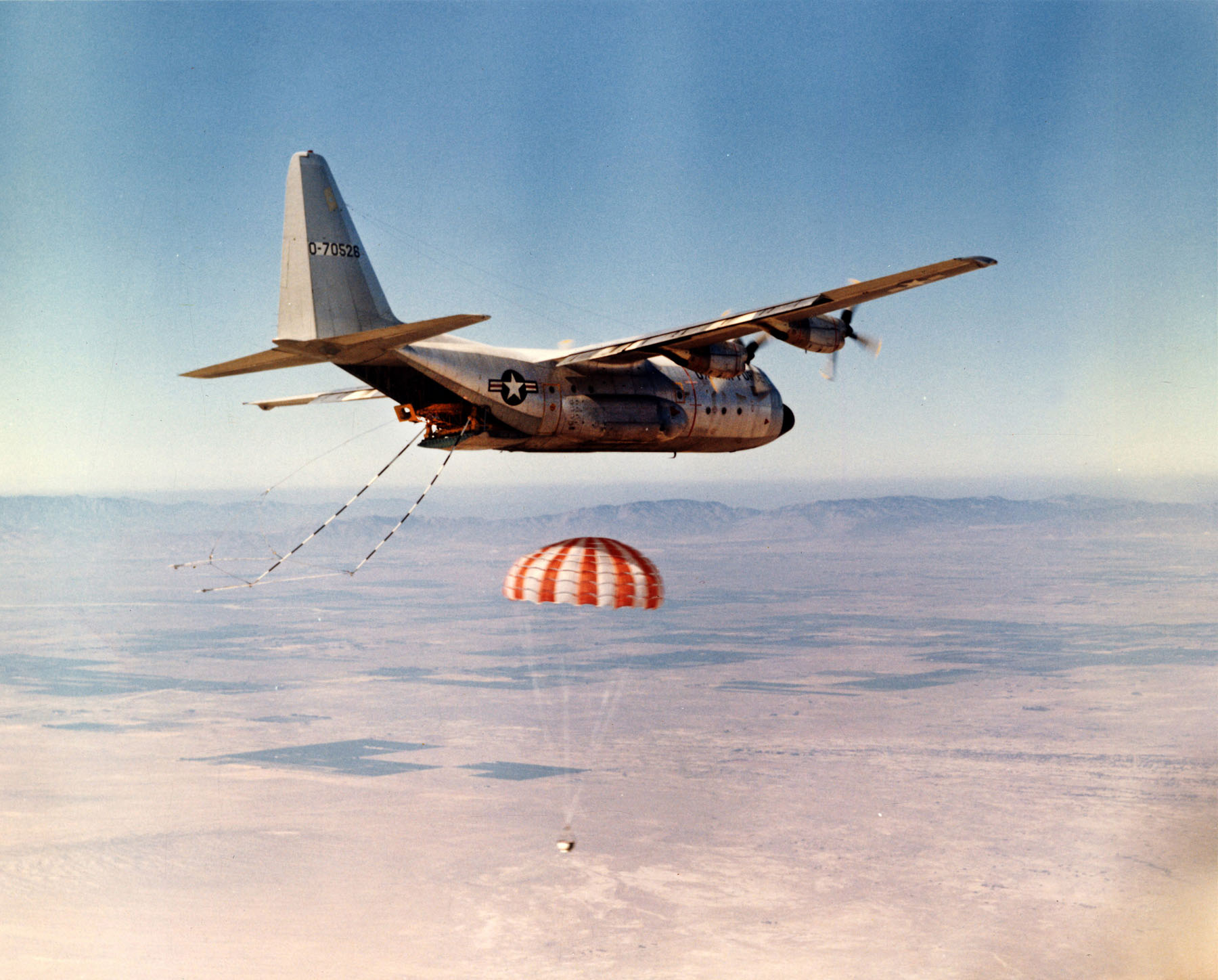 An Air Force JC-130B practices catching a satellite “bucket” with grappling gear and winch at Edwards AFB, Calif., 1969.